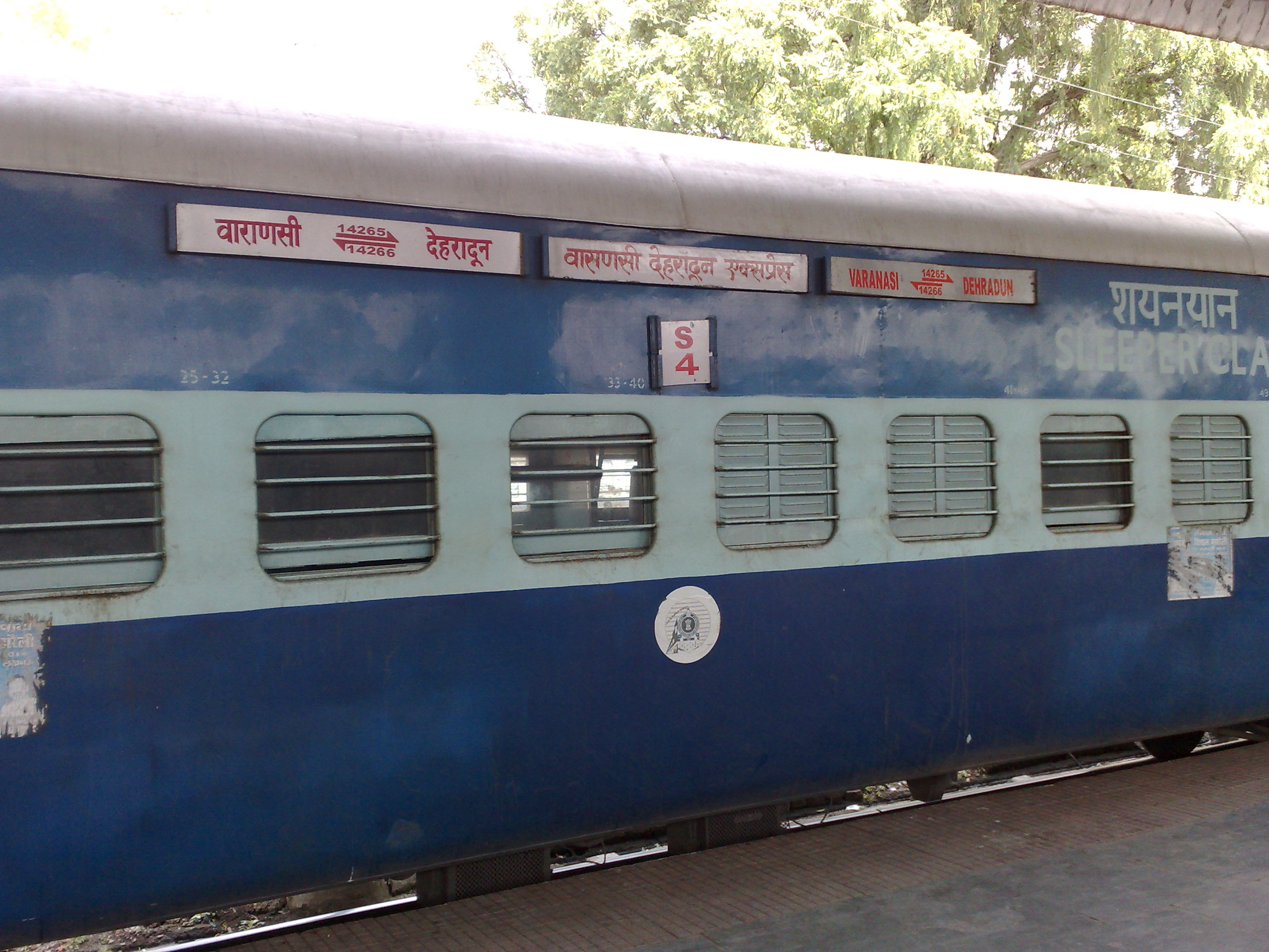 14265 Varanasi Dehradun Express - Sleeper coach